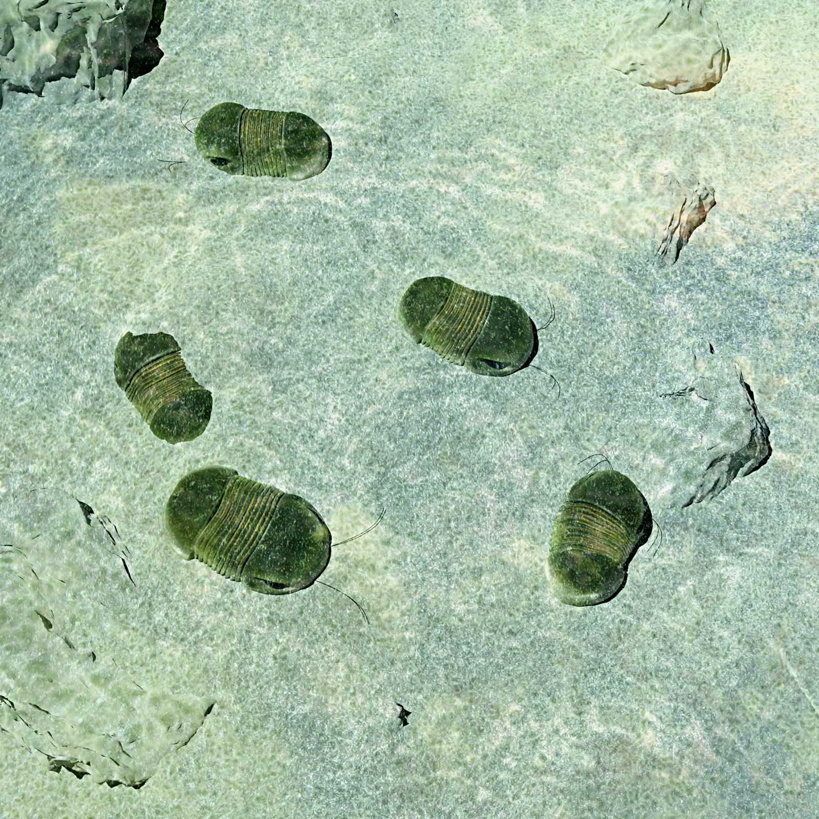 3d reconstruction of the trilobite Bumastus Own work - ZBrush + 3ds Max 2010 + GIMP